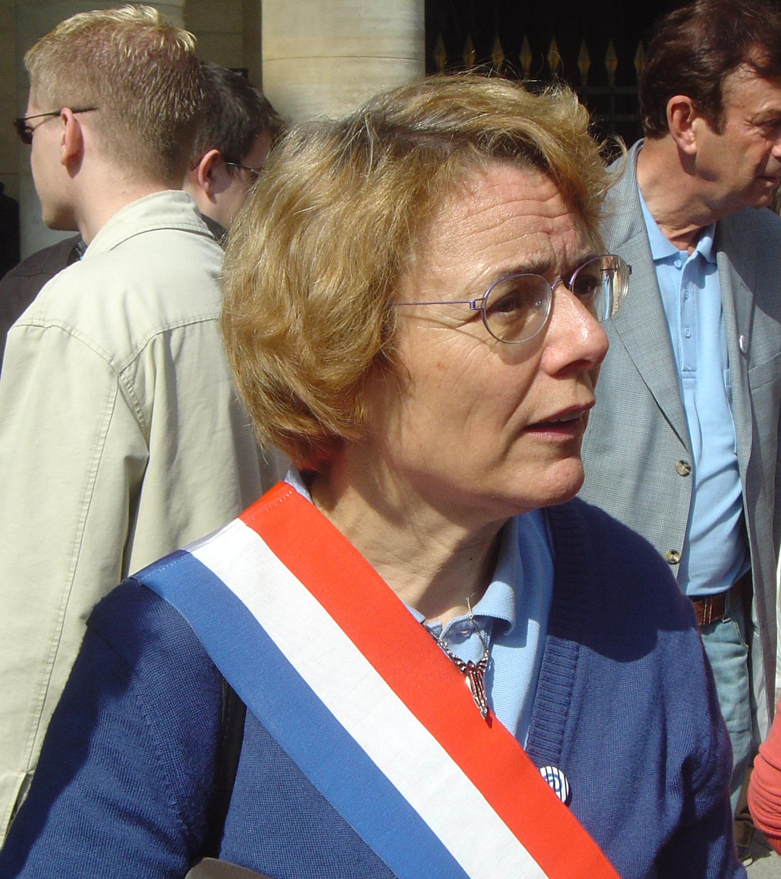 March against digital rights management techniques and the DADVSI copyright law (from Bastille plaza to the Ministry of Culture).